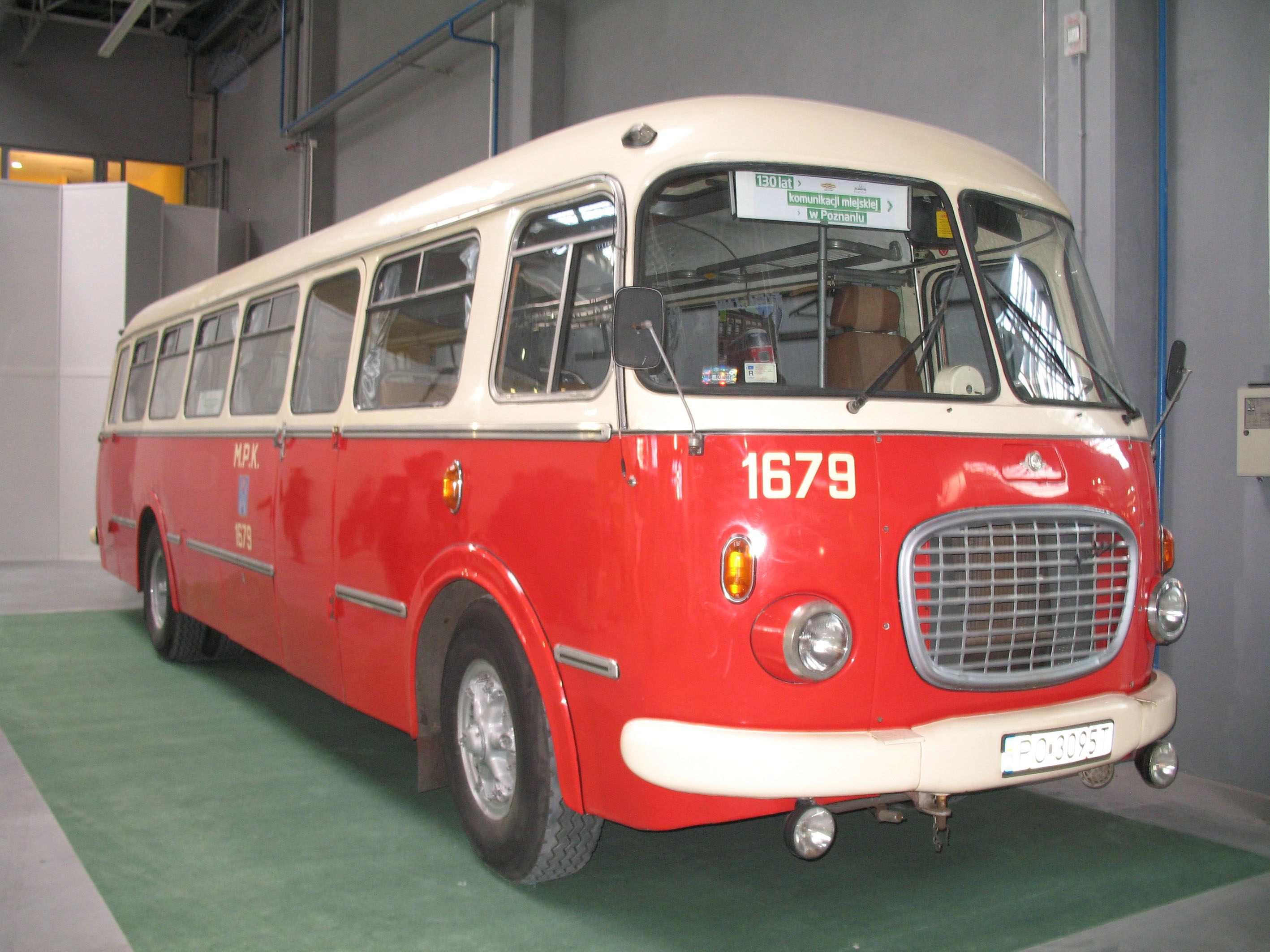 Jelcz 043 bus (#1679) in Kielce, Poland. Built 1985, MPK Poznań operator.